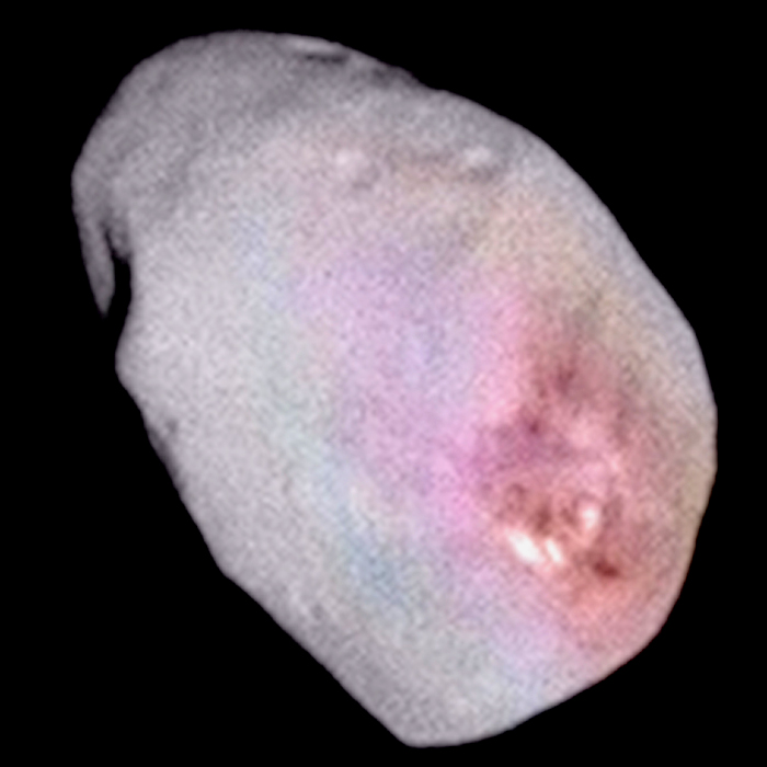 Processed image of Nix